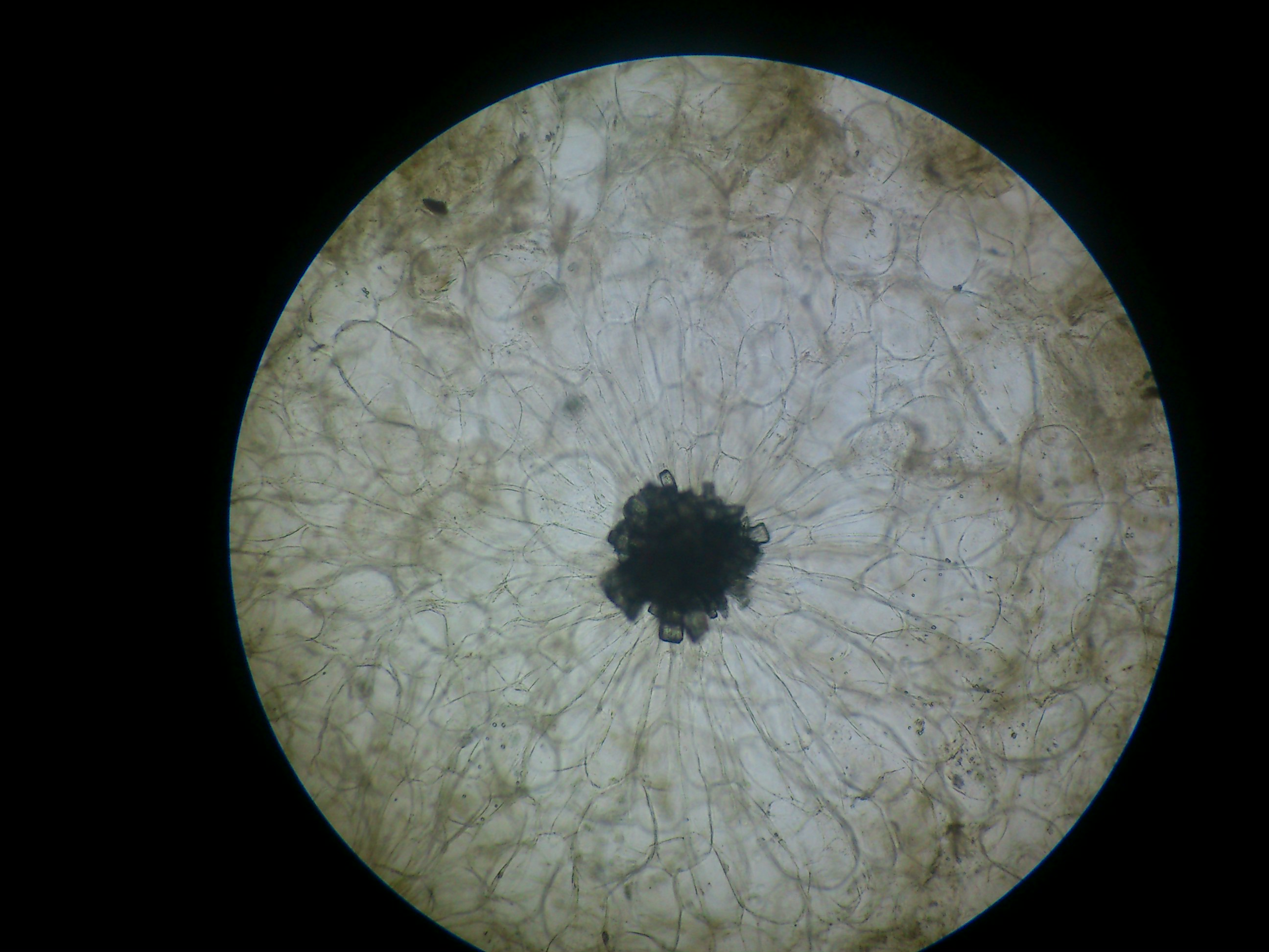 Sclereid in the crumbed cells of banana.